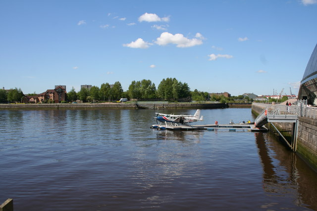 Prince's Dock Seaplane A Cessna Caravan seaplane in the Prince's Dock.